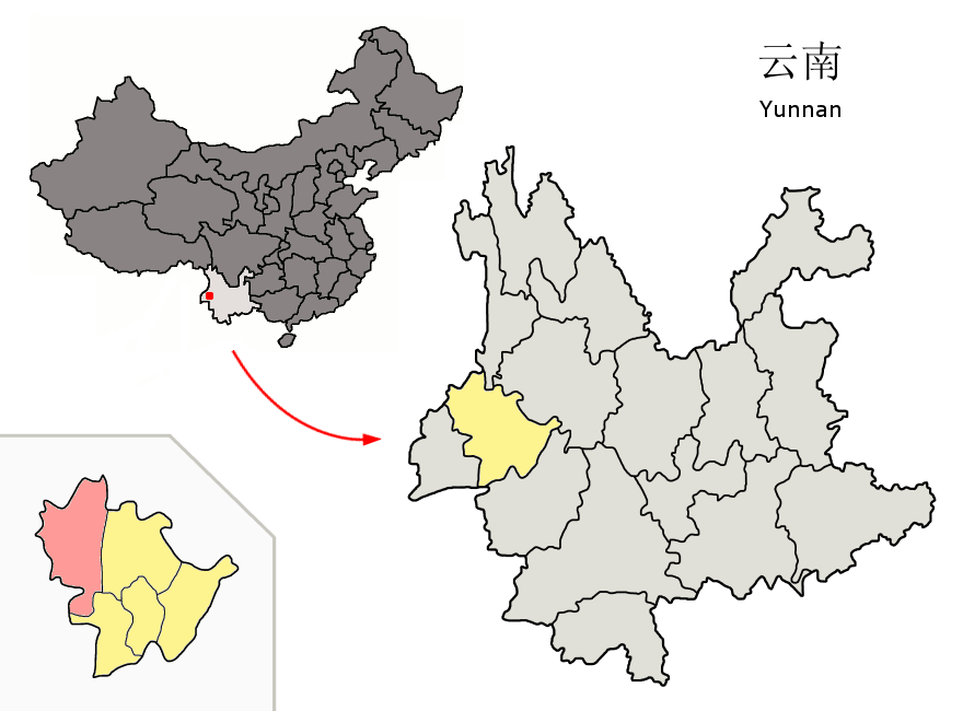 Location of Tengchong County (pink) and Baoshan Prefecture (yellow) within Yunnan province of China Map drawn in september 2007 using various sources, mainly : Yunnan province administrative regions GIS data: 1:1M, County level, 1990 Yunnan Counties map from